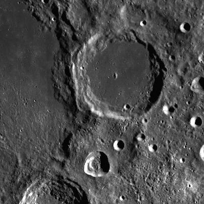 Dark-floored Davisson at upper center, protruding on east rim of huge Leibnitz ; Tycho-like Finsen at lower border of image.